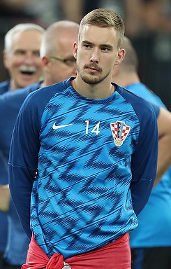 Croatia players react following the loss in the 2018 FIFA World Cup final.